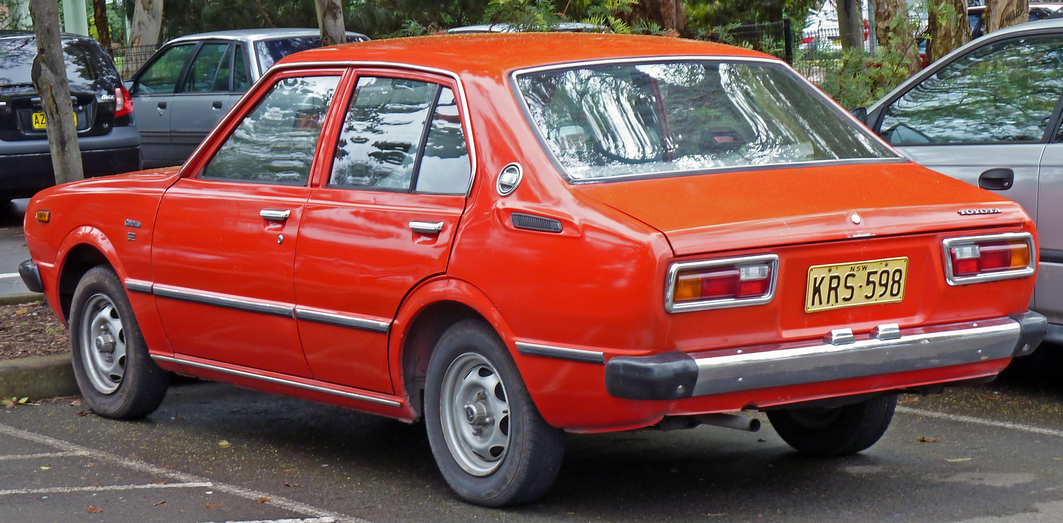 1979 Toyota Corolla (KE55R) SE sedan. Photographed in Sutherland, New South Wales, Australia.